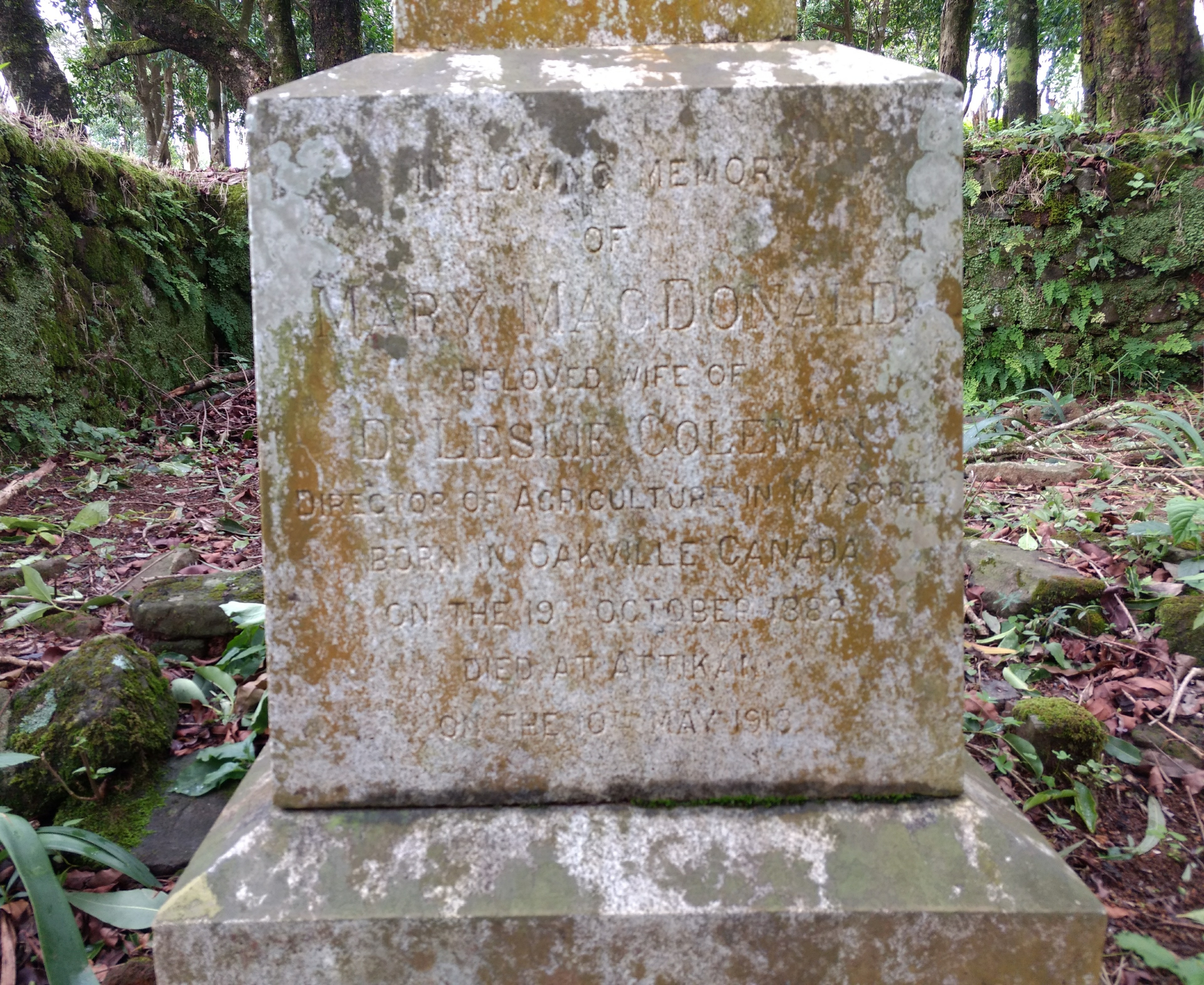 Grave of Mary MacDonald, wife of Leslie Coleman, Biligirirangan Hills, India